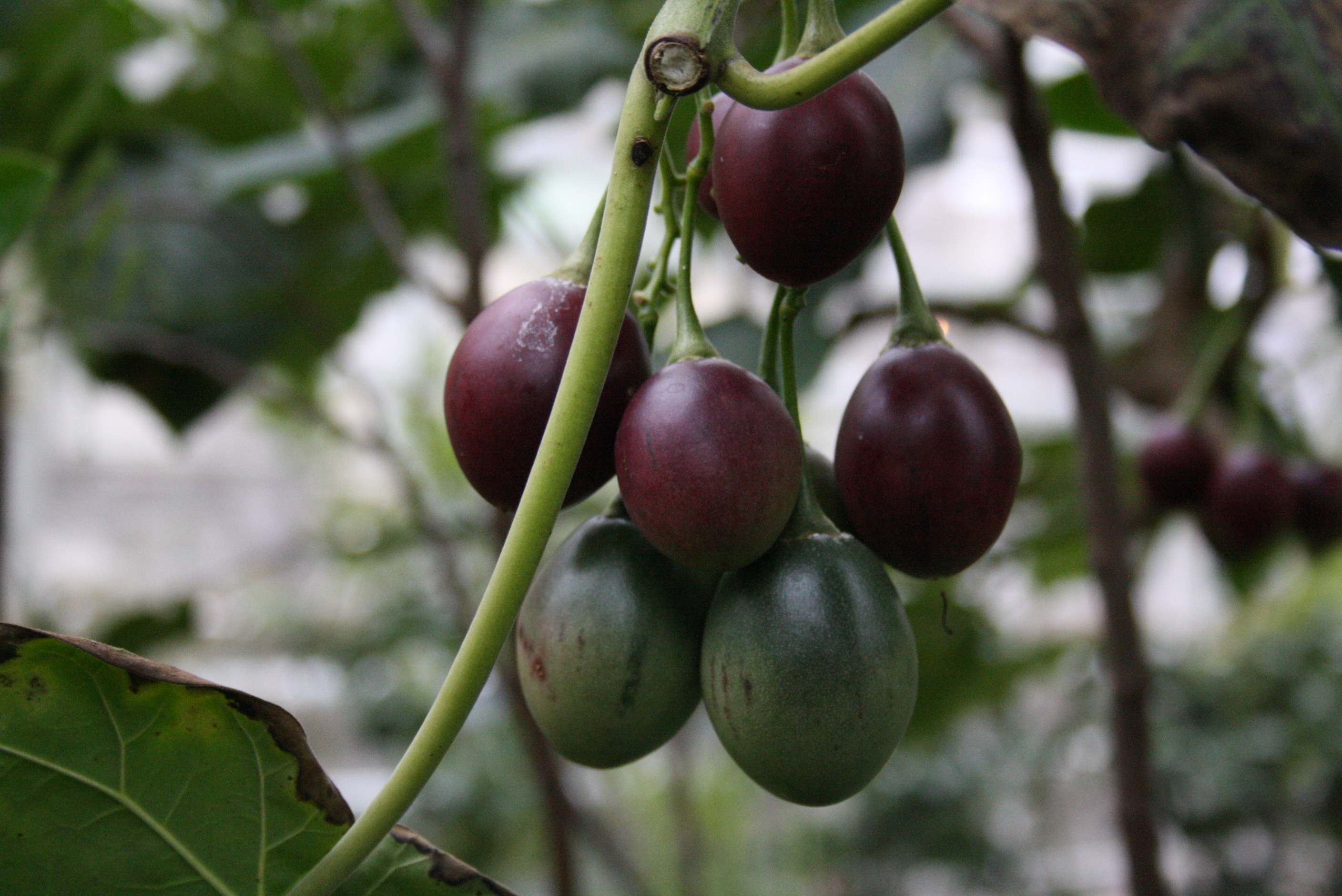 Fruits of Solanum betaceum